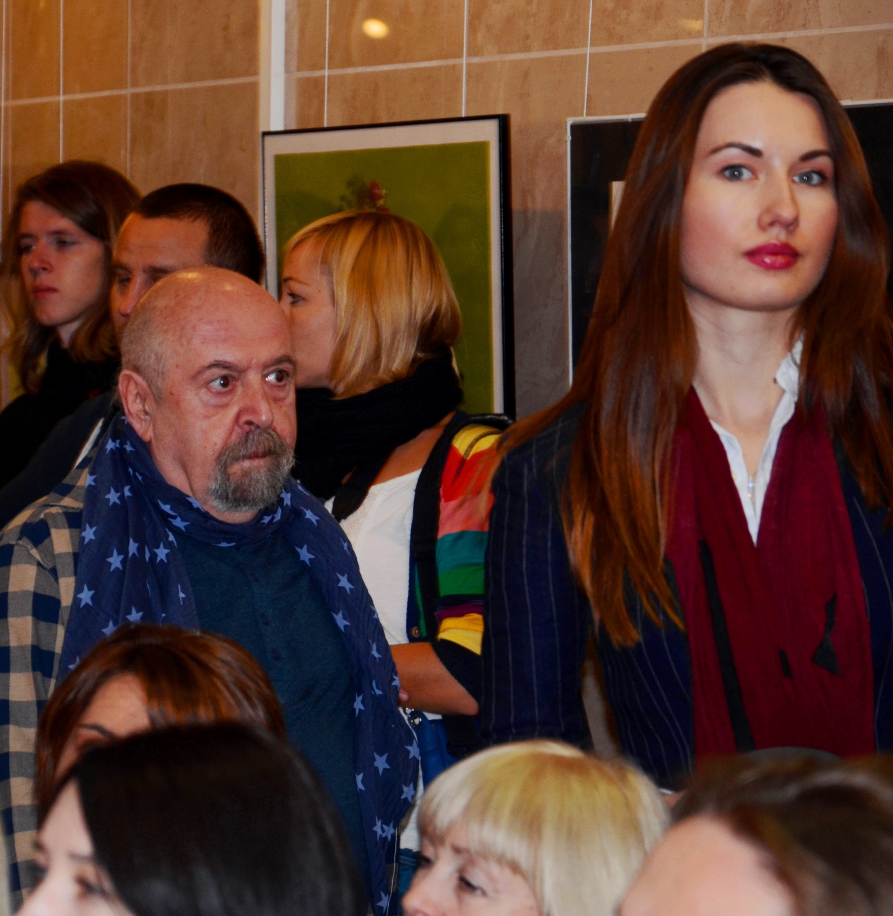 Opening of the "Smart Metal" art project in National Library of Belarus on October 22, 2014. The curator of the art project - Larisa Finkelstein.